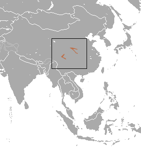 Smith's Shrew (Chodsigoa smithii) range